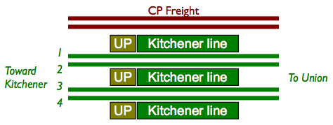 Planned track layout of Weston GO station. As of 2016, track and platform #1 have not yet been installed.